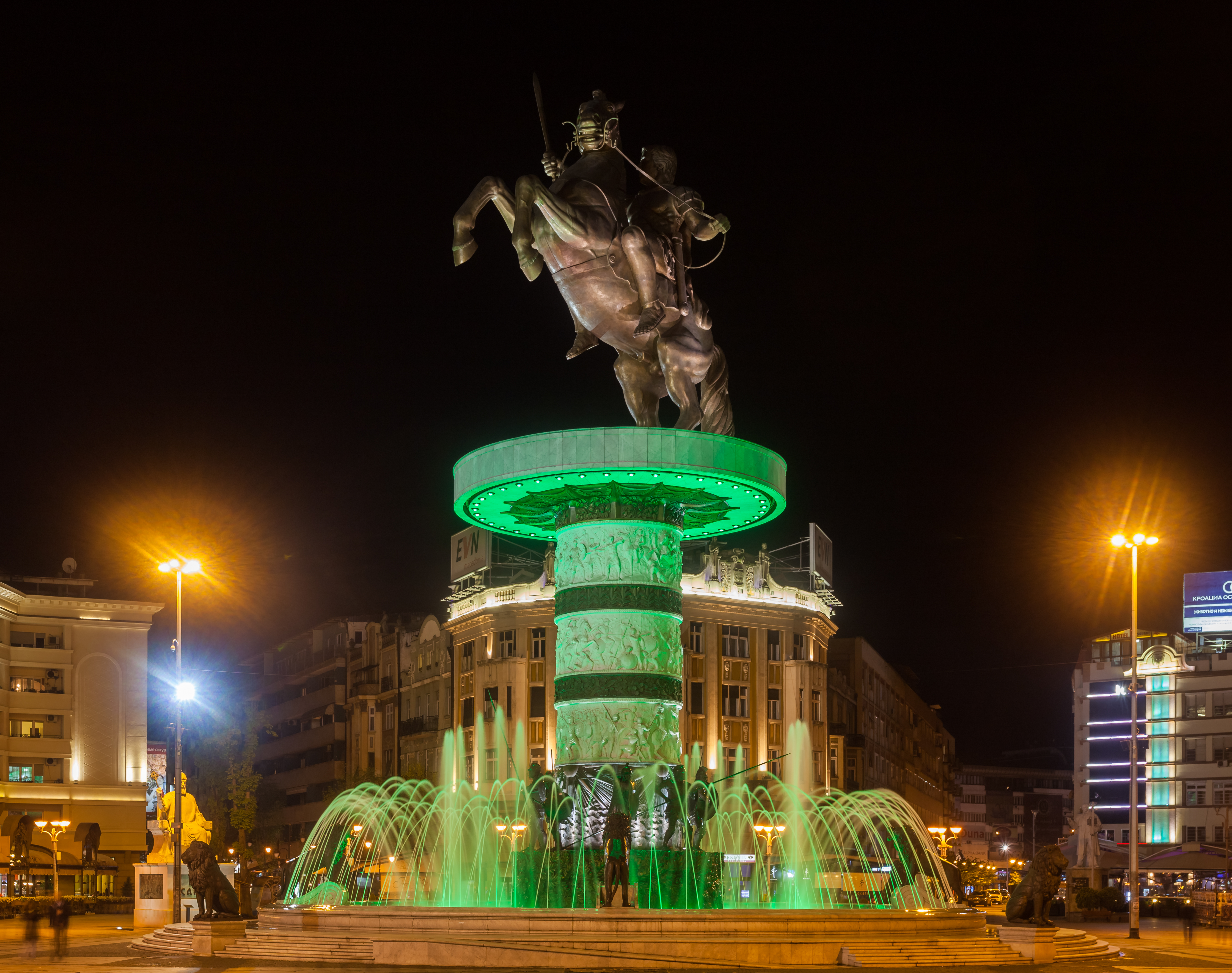 Warrior on Horseback, Skopje, Macedonia